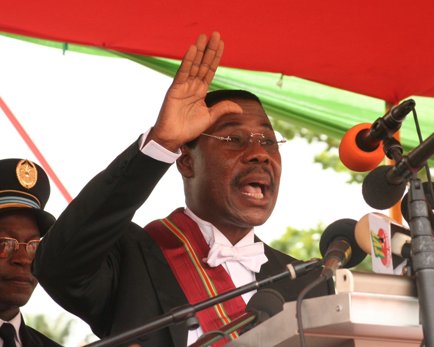 Thomas Yayi Boni taking the oath of office as President of Benin.